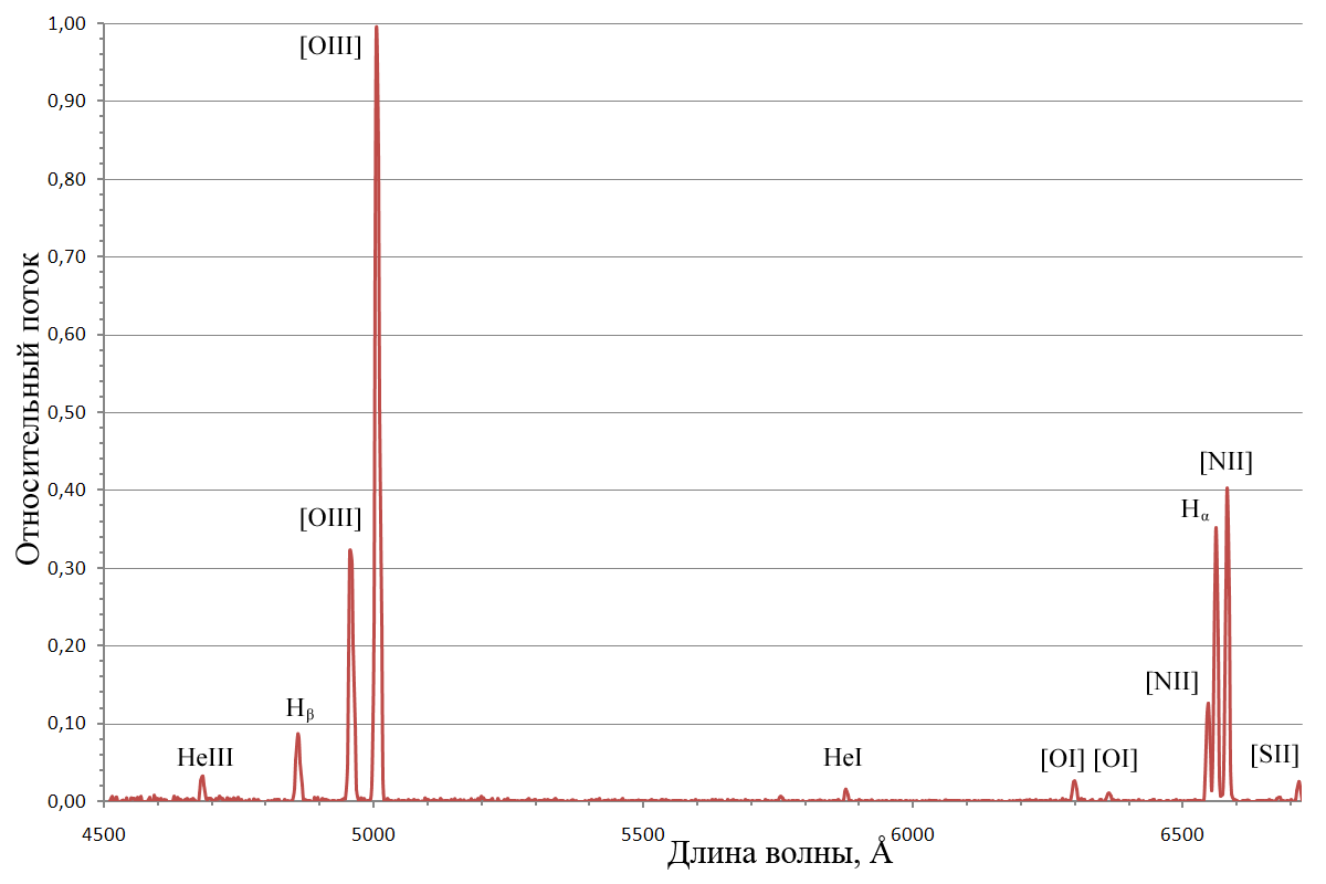 The spectrum of Ring Nebula (M57) in range 4500 — 6720 Å. Left part — helium line (HeIII, 4686 Å), hydrogen line (Hβ, 4861 Å) and two forbidden lines of oxygen ([OIII], 4959 Å and [OIII], 5007 Å), right — helium line (HeI, 5876 Å), two forbidden lines of oxygen ([OI], 6300 and 6364 Å), two forbidden lines of nitrogen ([NII], 6548 Å and [NII], 6584 Å), hydrogen line (Hα, 6563 Å) and forbidden line of sulfur ([SII], 6717 Å).